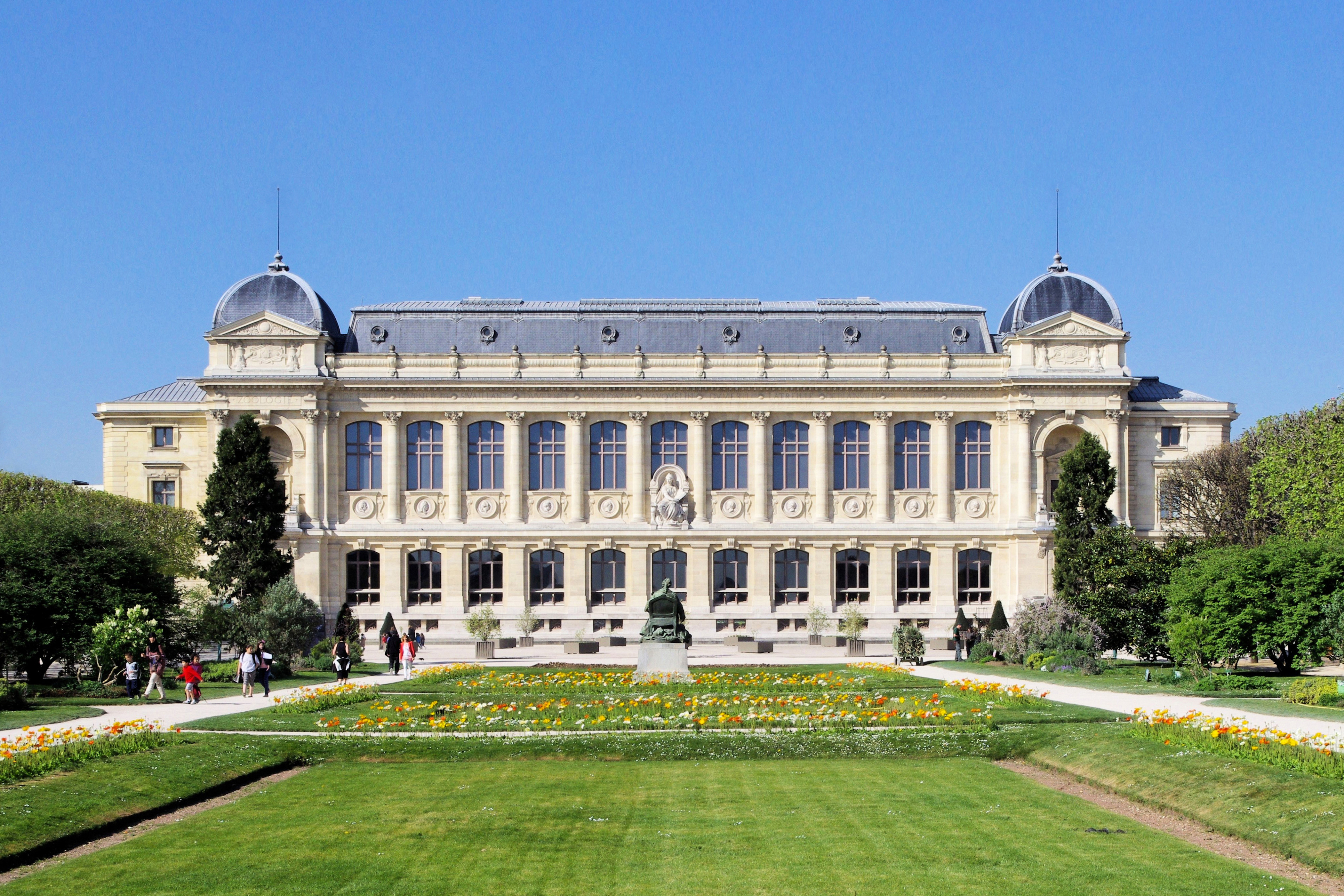 Façade of the grande galerie de l'Évolution (Gallery of Evolution), which is a zoology museum building belonging to the French National Museum of Natural History. The building is located in the Jardin des plantes in Paris.